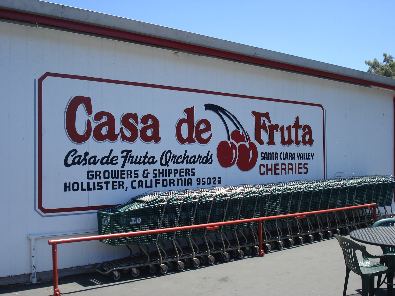 The Casa de Fruta sign on the side of the building.